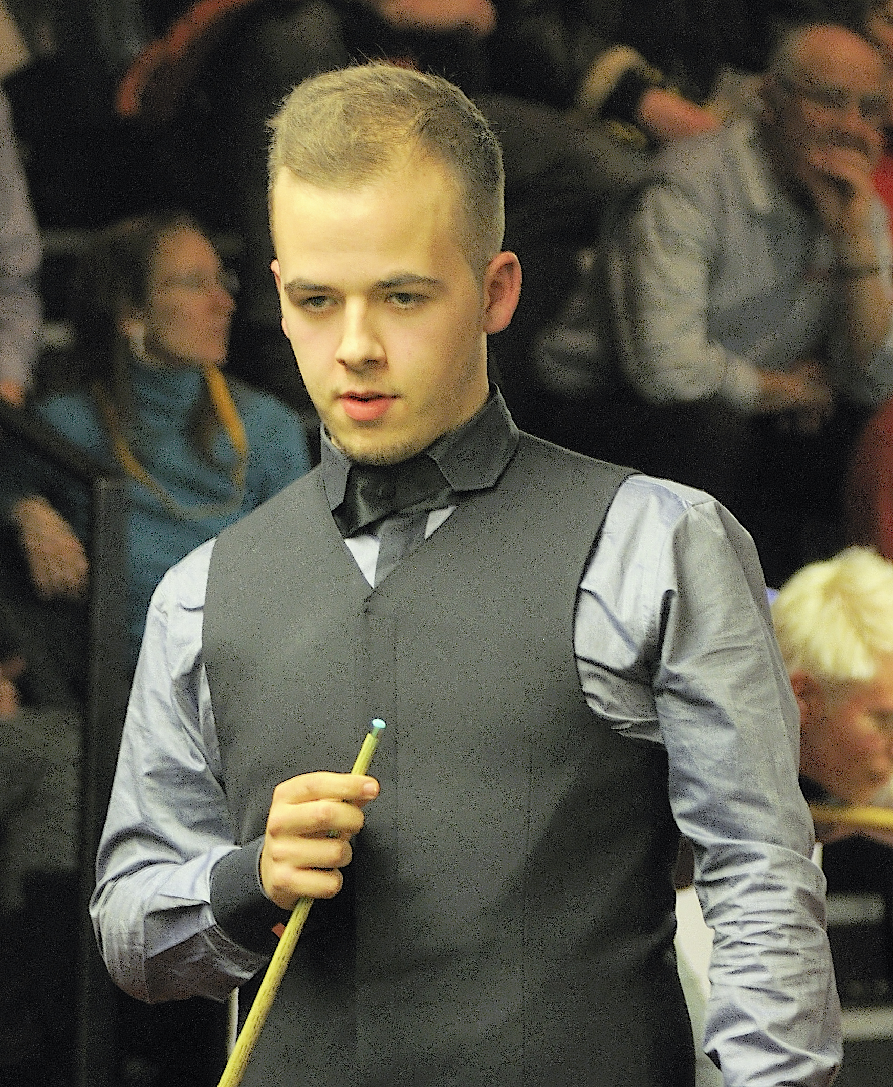 Picture taken in Berlin during the Snooker German Masters in 2014. Luca Brecel.